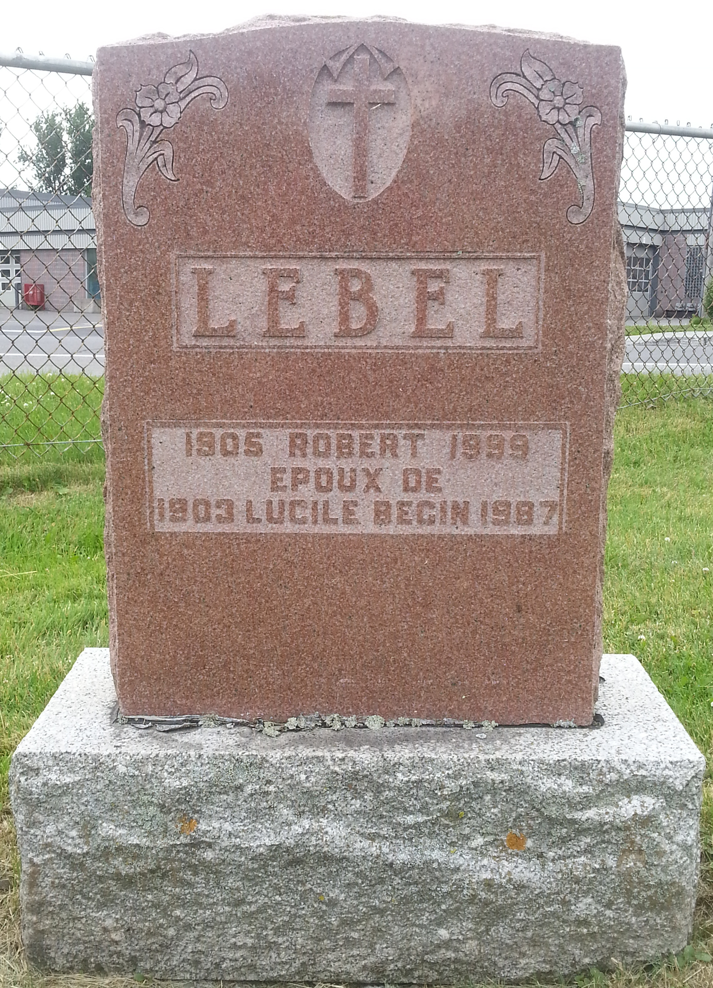 Robert Lebel gravestone, in the Saint Joseph Church cemetery in Chambly, Quebec.